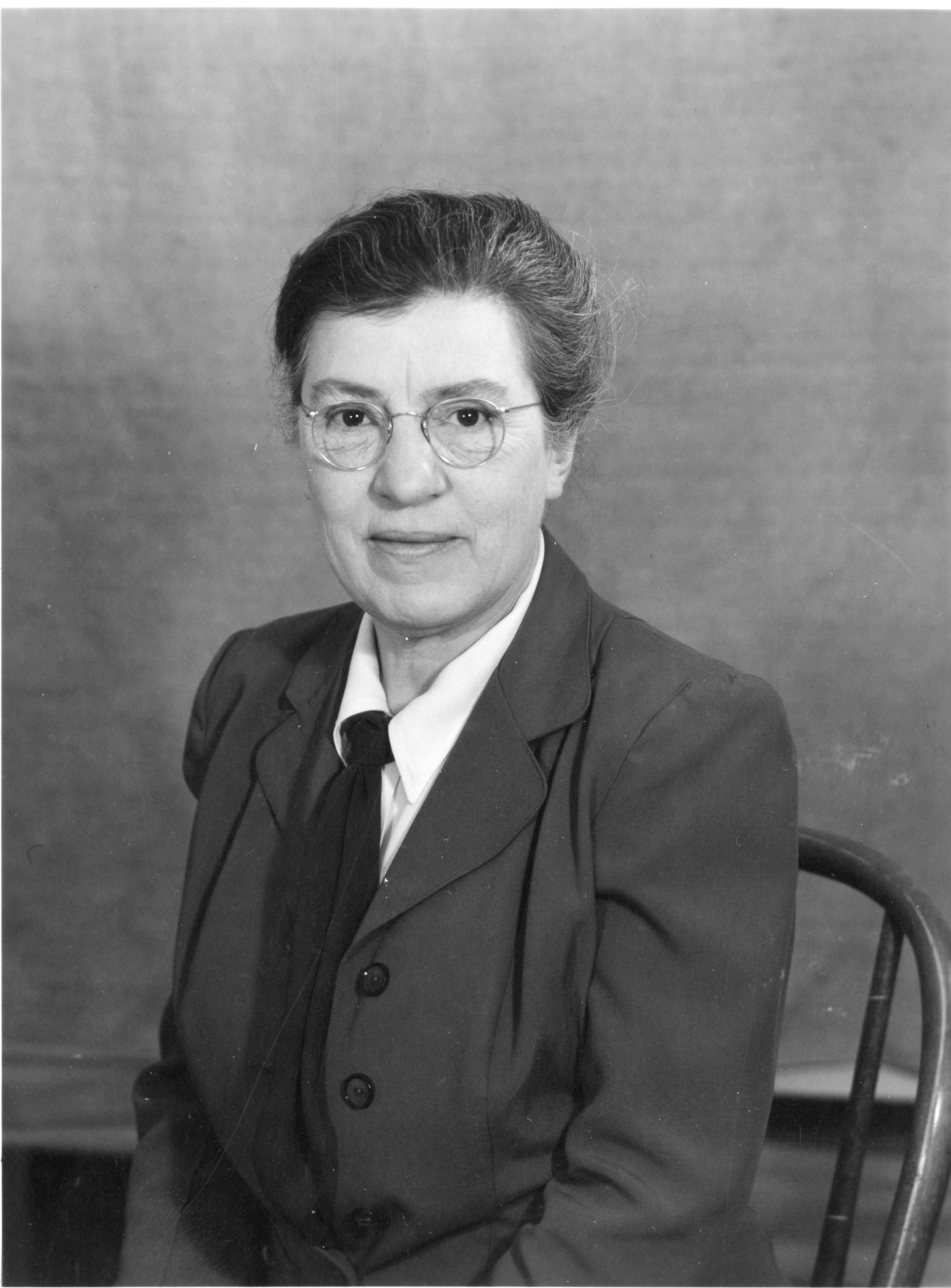 Harriette Cushman, formal portrait, ca. 1940s Creator: Unknown Date: 1894-2015 Description: A black and white portrait of Harriette E. Cushman, Poultry specialist at Montana State University. Photo part of the Harriette Cushman series Physical Description: Photo print - Black and White Subjects: Cushman, Harriette Eliza, 1890-1978 Photograph ID: parc-001264 • I represent Montana State University Library and we are releasing this image into the Creative Commons.